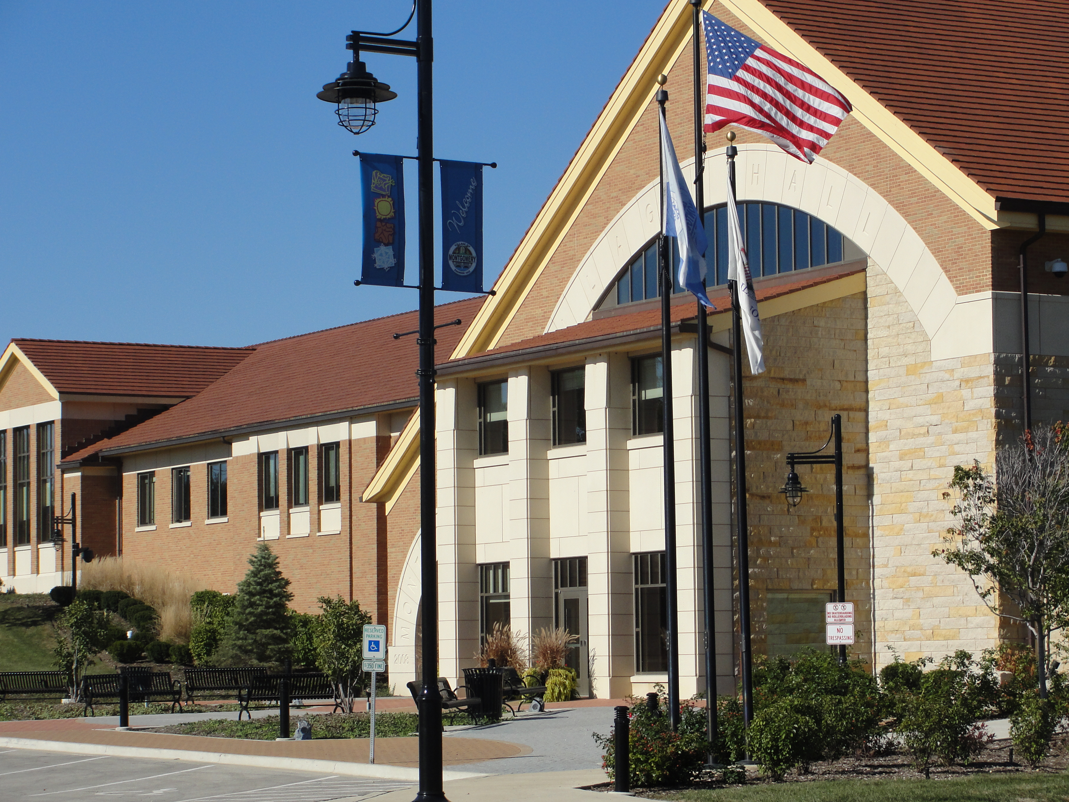 Village Hall of Montgomery, Illinois. 200 N. River Street